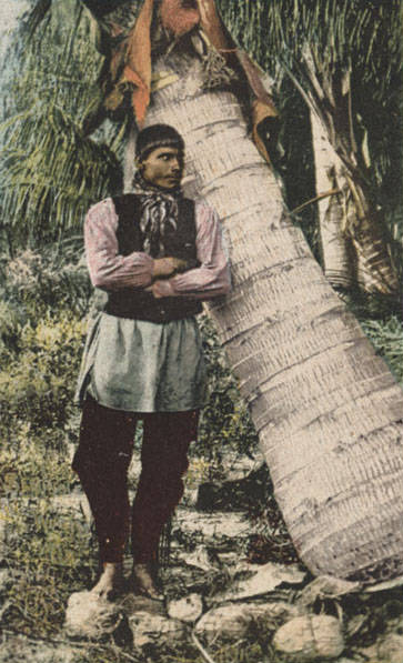 A Seminole Indian